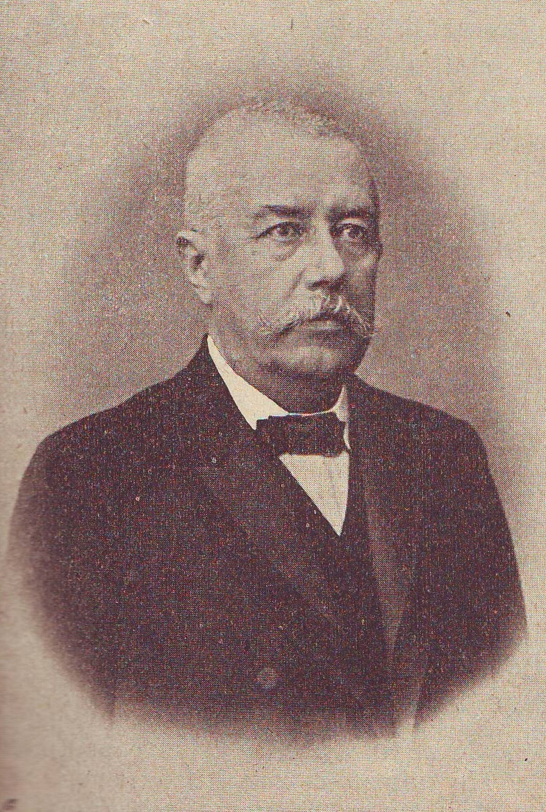 A photogrpah of Risto Škuljević, a Serbian merchant from Trieste and a benefactor. Srpski (latinica): Fotografija Rista Škuljevića, srpskog trgovca iz Trsta i dobrotvora.